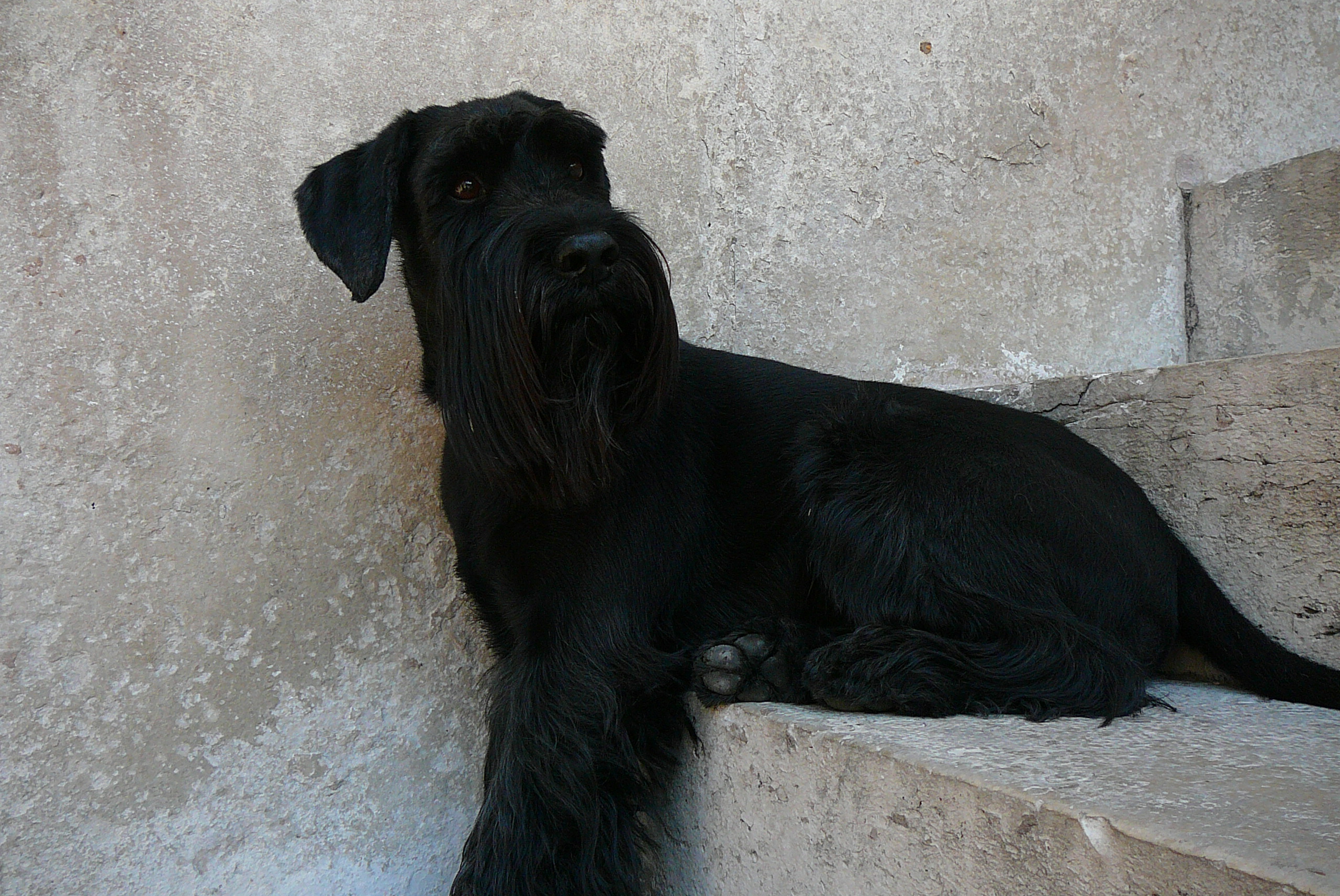 A picture of my dog taken at Nîmes in France.